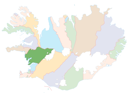 A map of the county Mýrasýsla in Iceland. Based on a map from the National Land Survey of Iceland. No copyright protedtion on the original map. "Á þessari síðu eru sett fram nokkur kort sem heimilt er að nota í ýmsum tilgangi, án sérstaks leyfis frá stofnuninni. Fleiri kort munu bætast við á næstunni. Smelltu á kortið og þú færð upp stærri mynd.